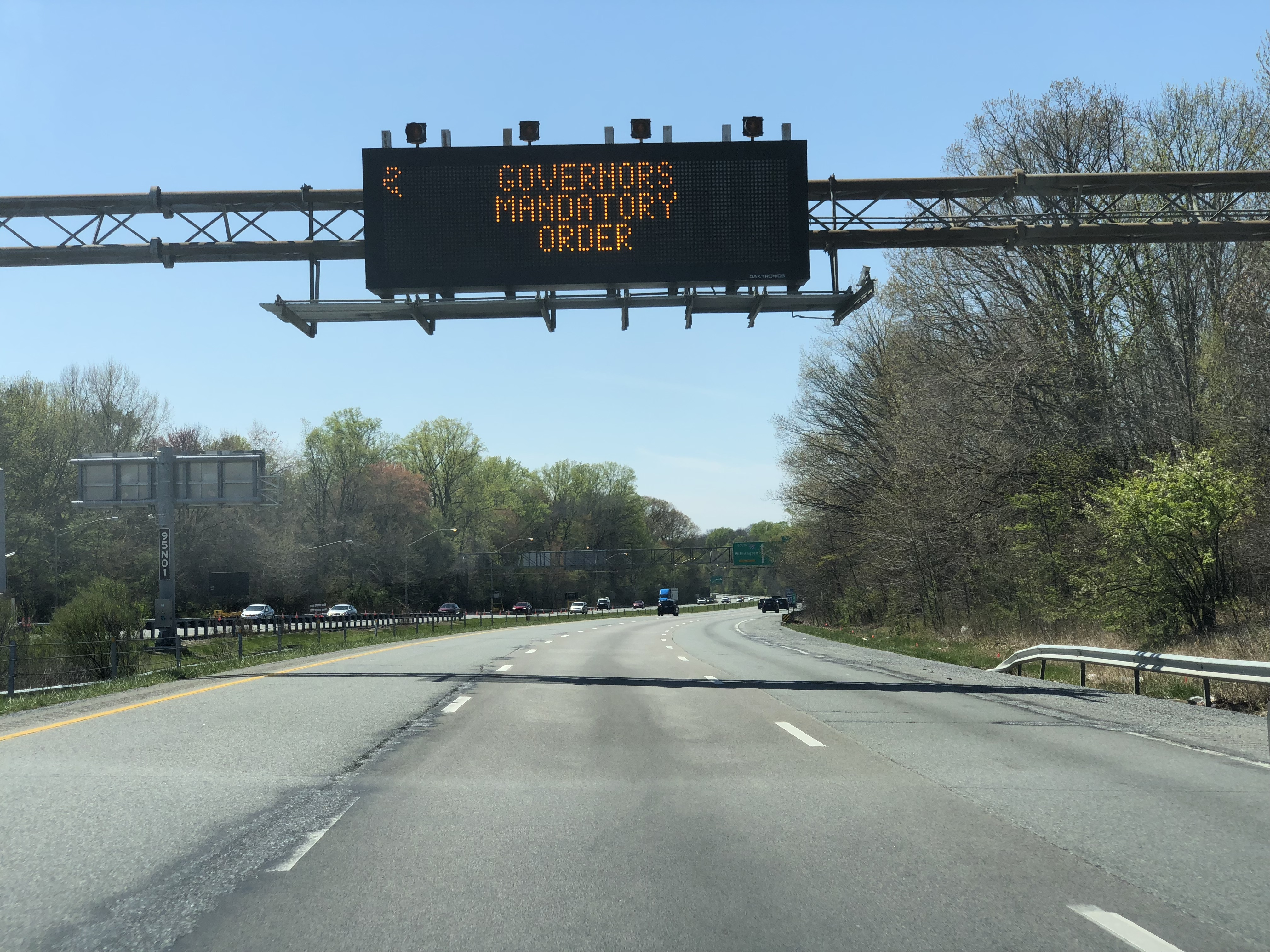 Variable message sign reading "Governors mandatory order" (referring to non-Delaware citizens having to quarantine if visiting Delaware) along southbound Interstate 95 (Delaware Expressway) just south of Exit 1 crossing from Upper Chichester Township into Lower Chichester Township in Delaware County, Pennsylvania